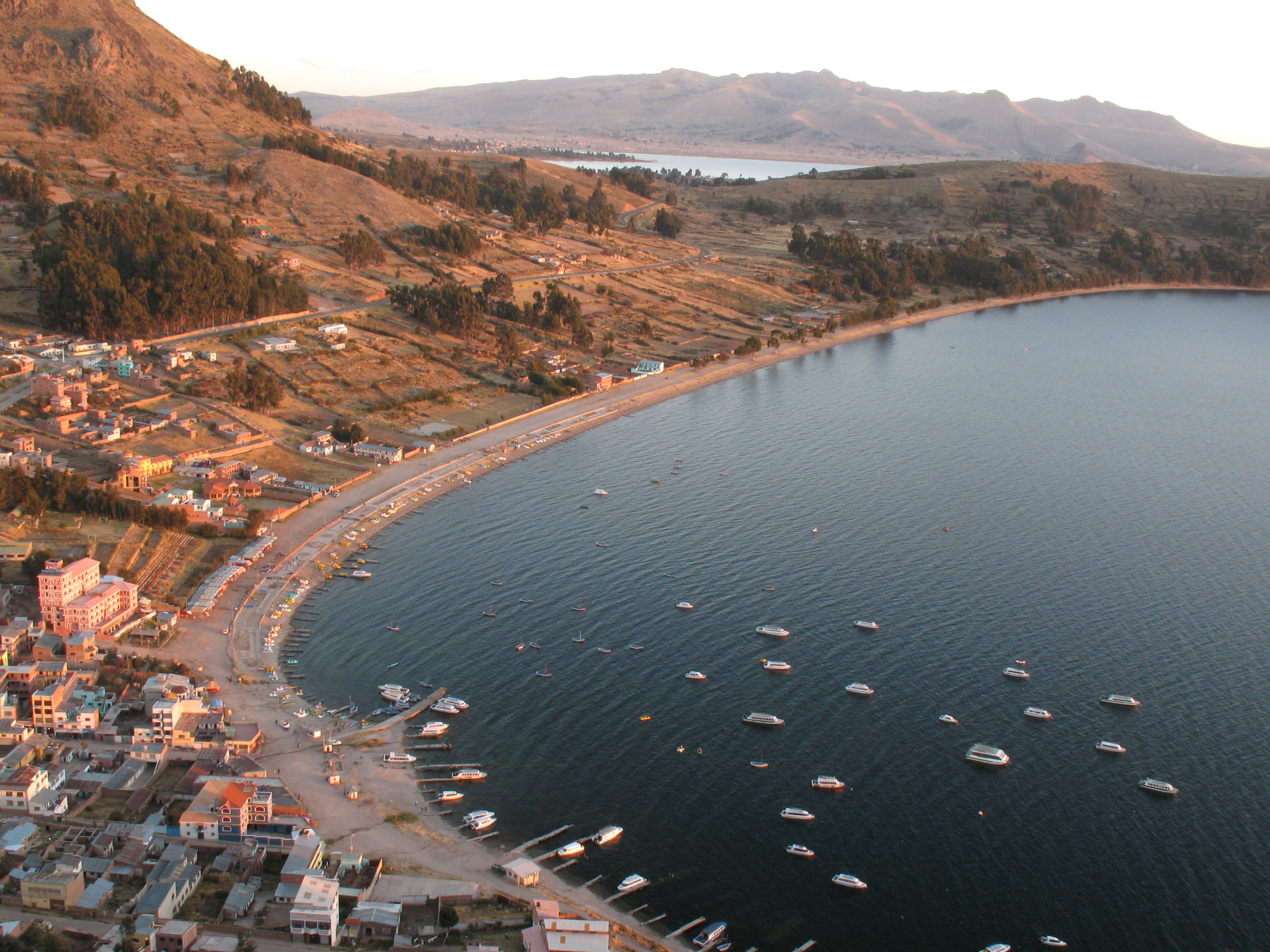 Copacabana, Bolivia docks at sunset